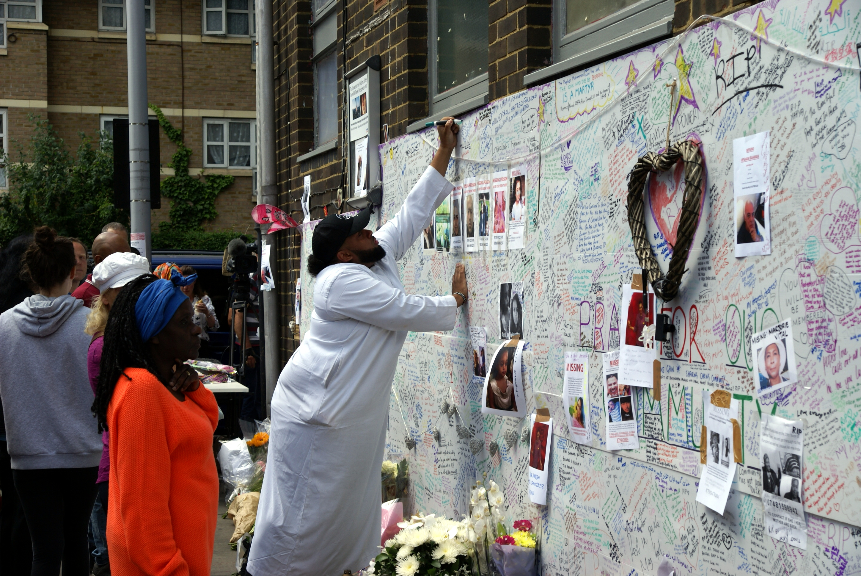 Wall of tributes to the casualties of the Grenfell Tower fire in Bramley Road, London